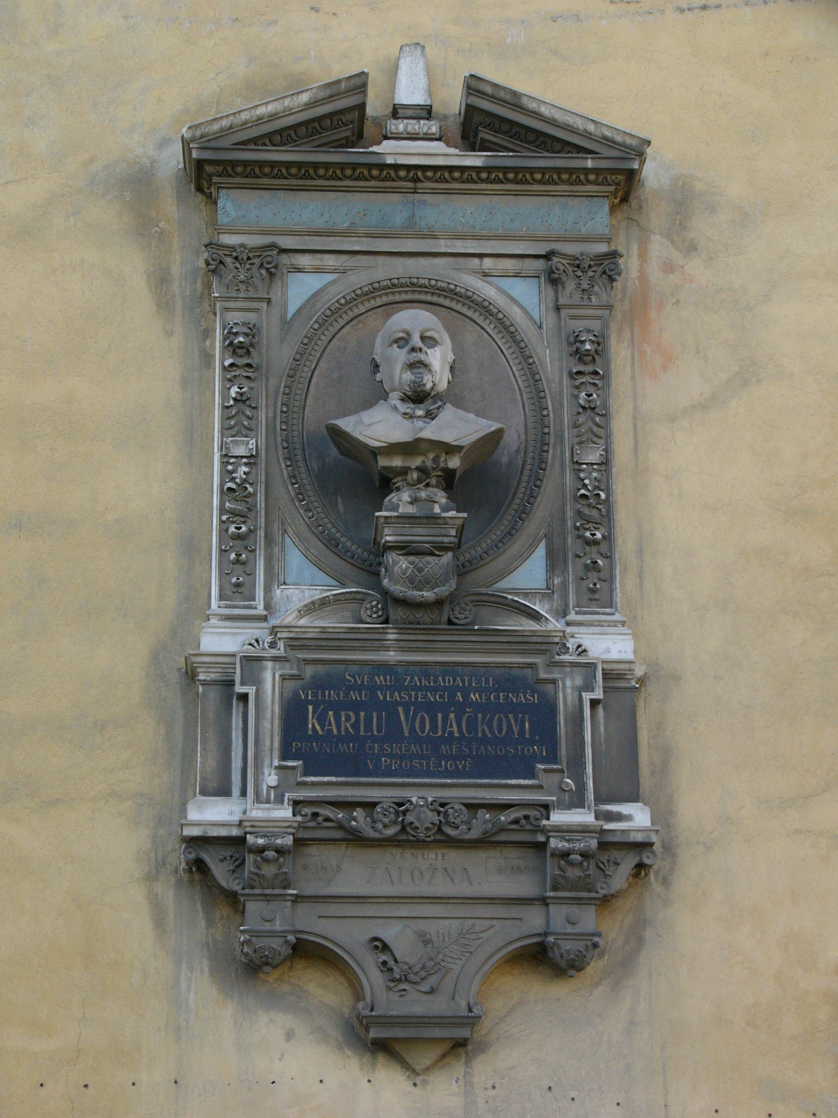 bust of Karel Vojáček in Prostějov, Czech Republic